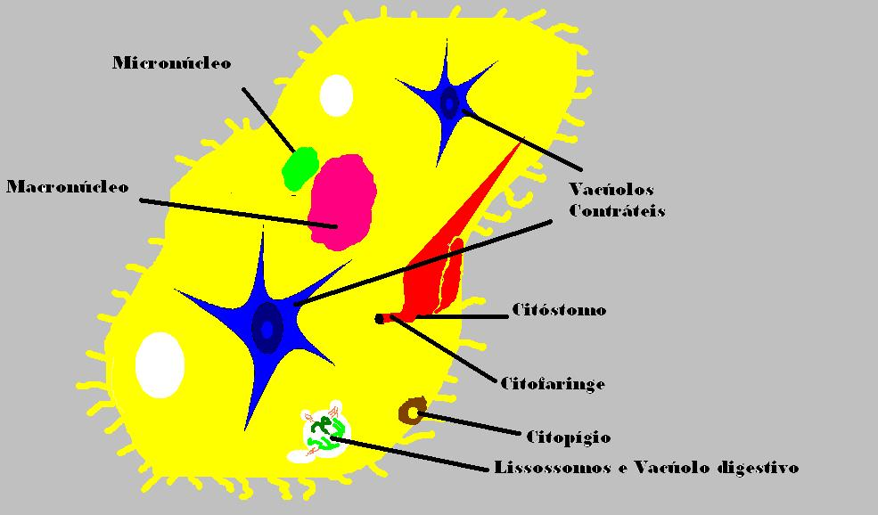 How this organ works in the animals is shown in the image